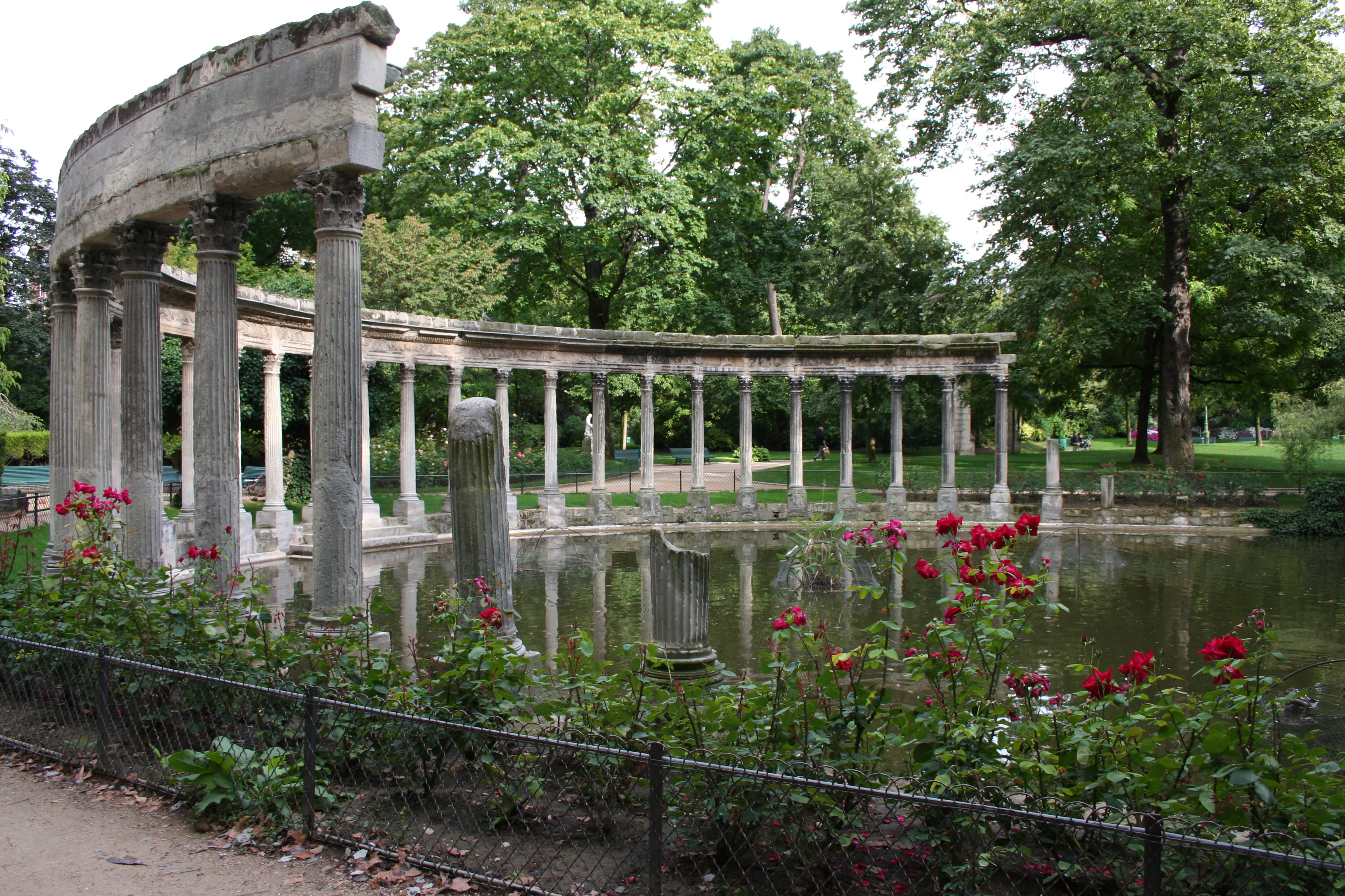 Parc Monceau (Paris, France)